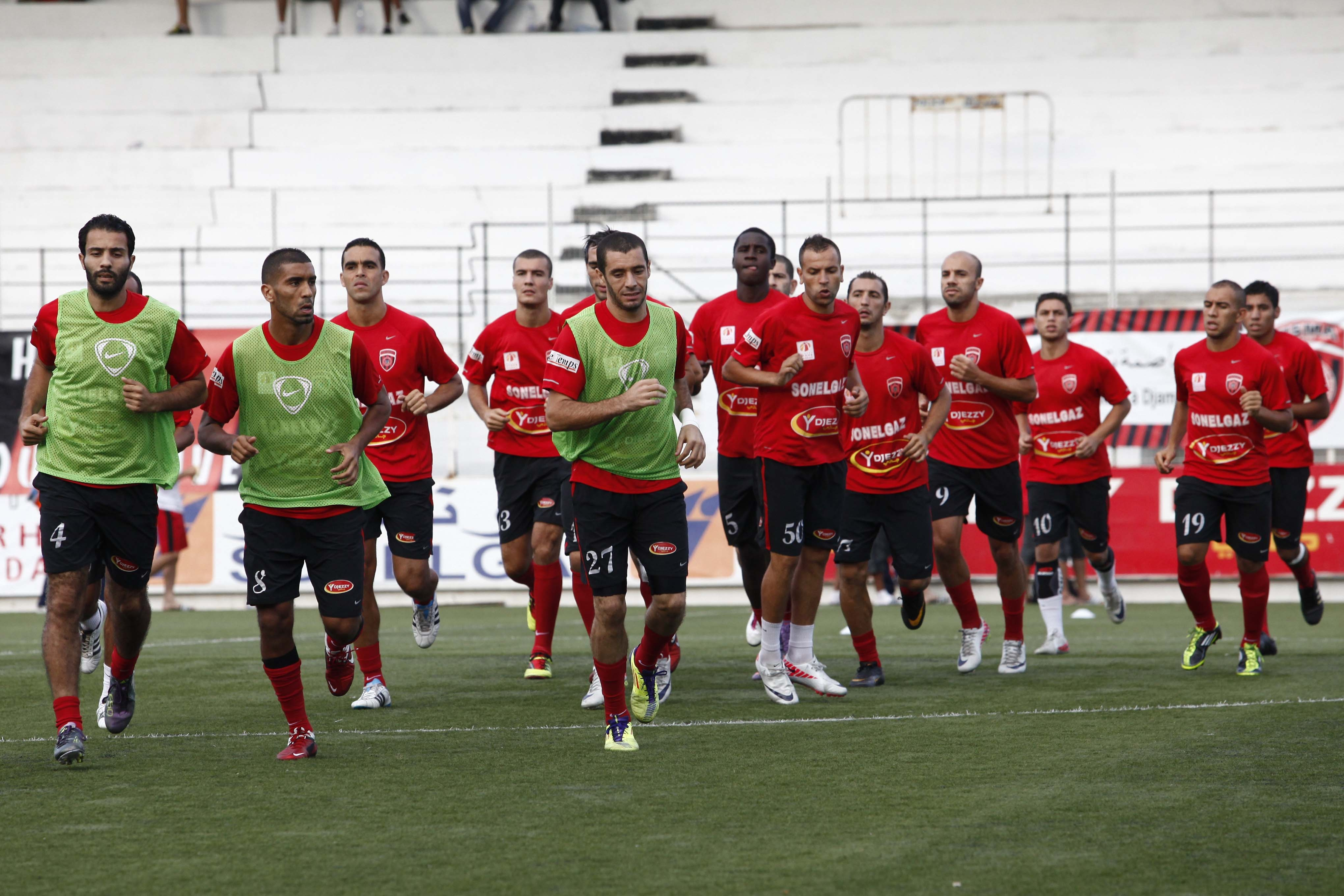 2011-2012 USM Alger team during a training session at Omar Hamadi stadium.